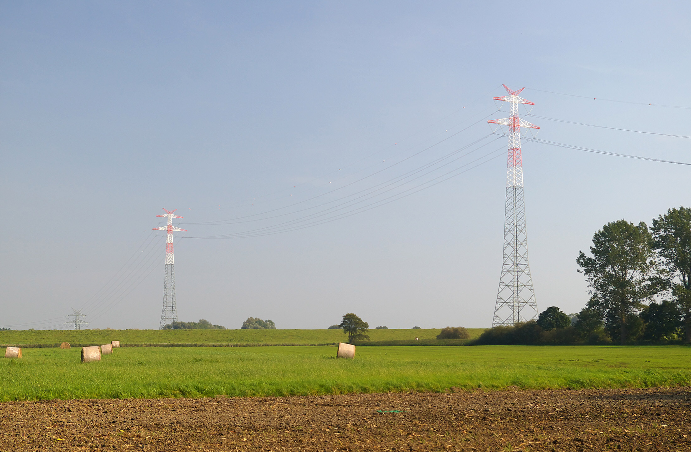 380 kV power line crossing river Ems south of Weener. The span of the power line is 405 meters, the towers originally had a height of 84 meters. They were raised to 110 m in the summer of 2007. The photo shows the situation in September 2007.